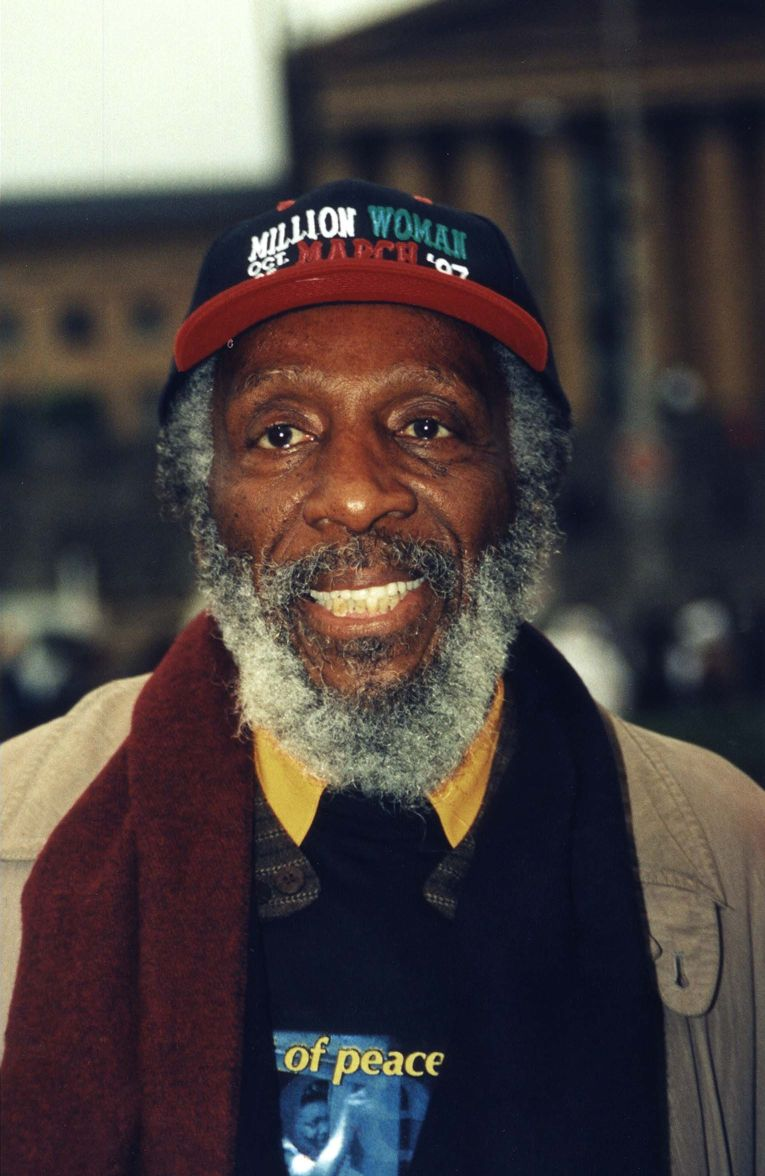 From Million woman march 1997 Philadelphia P.A.